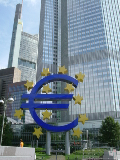 Euro Icon (Frankfurt am Main)